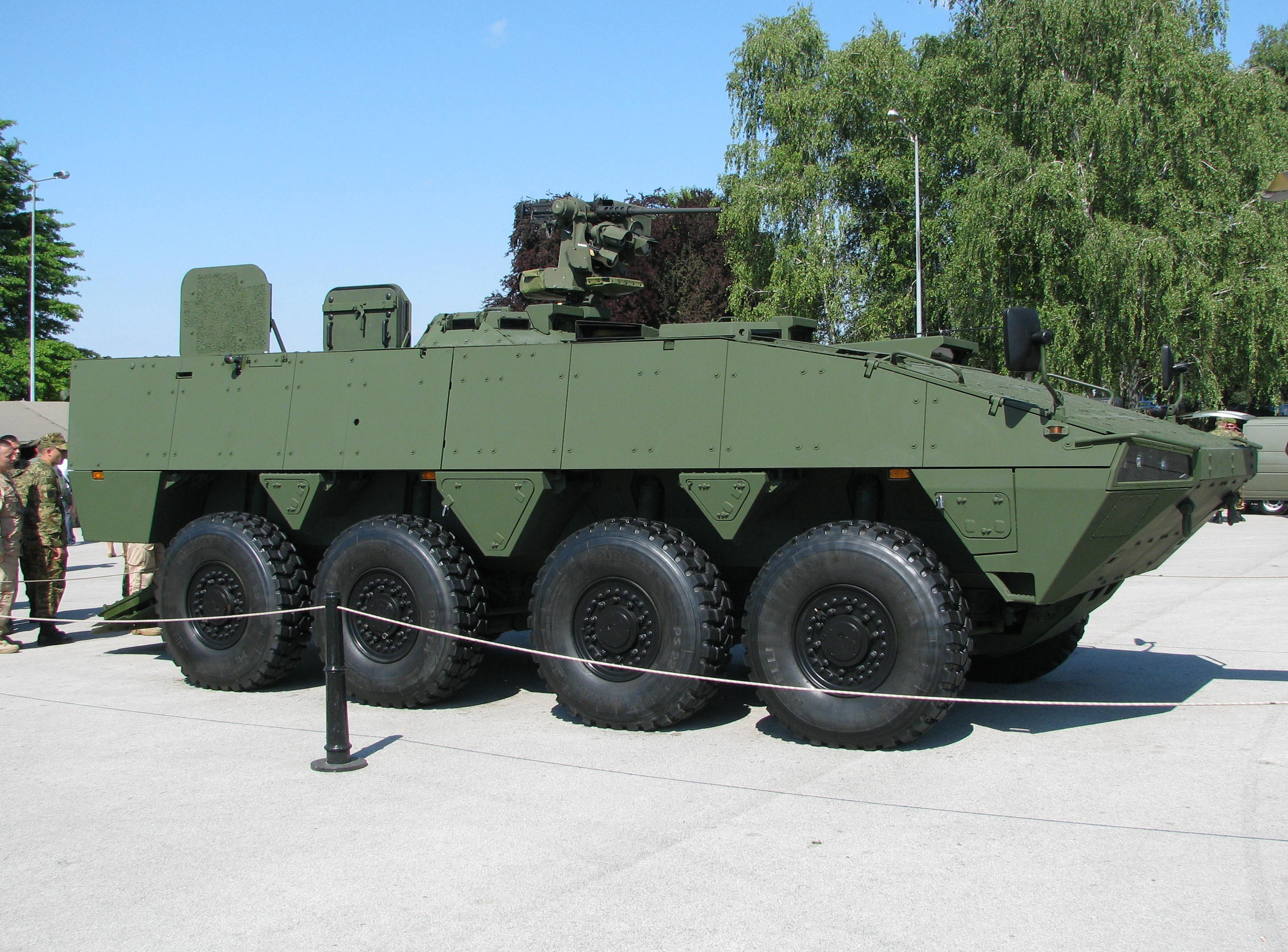 Croatian Patria AMV, Karlovac, 2009